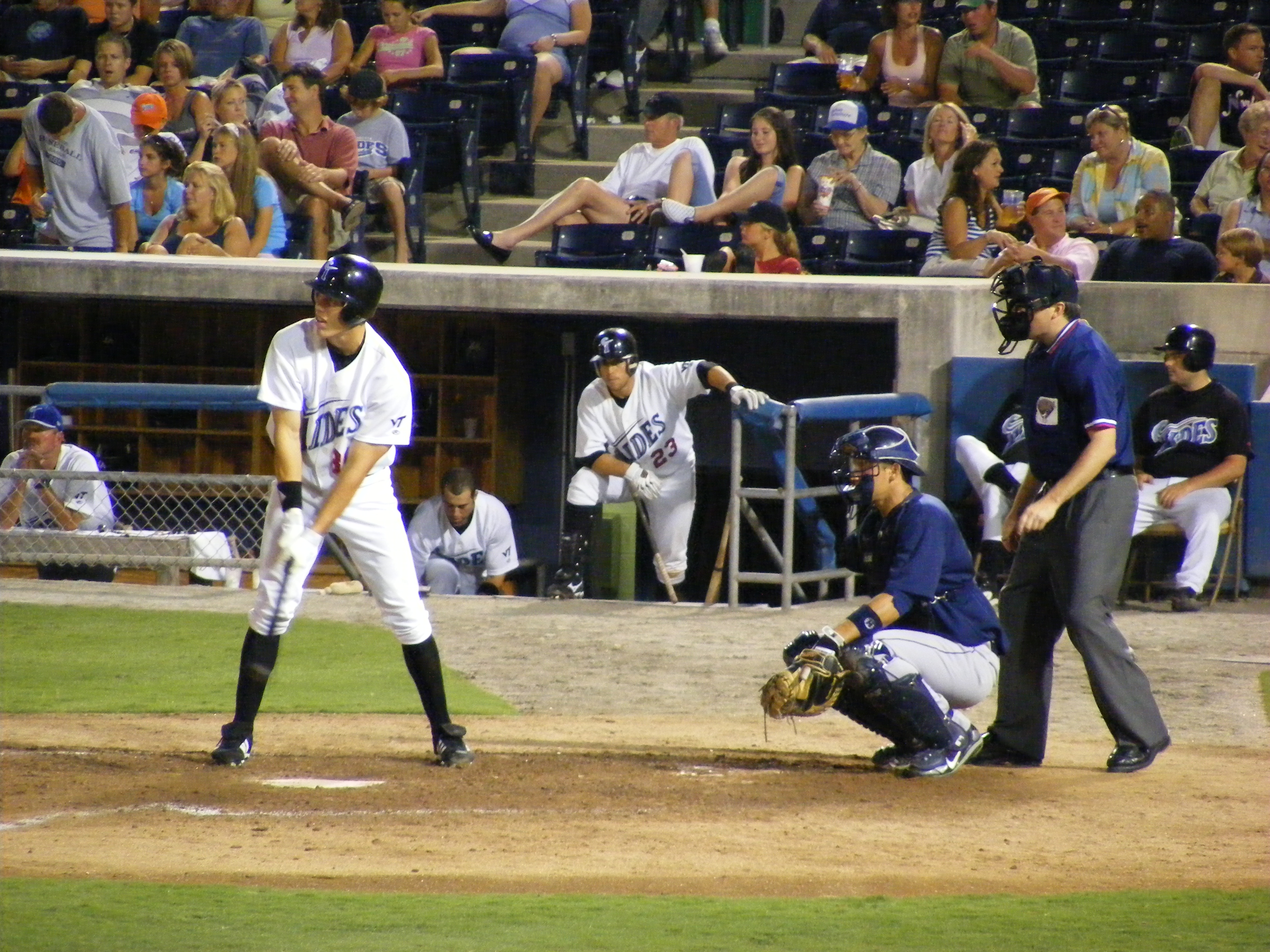 The Norfolk Tides (en) take on the Columbus Clippers at Harbor Park.